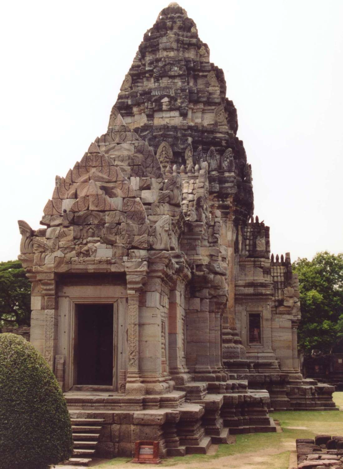 Main shrine of the Khmer temple in the Phimai historical park, Nakhon Ratchasima, Thailand. Viewed from the south. Photo taken by User:Ahoerstemeier on July 11, 2003.